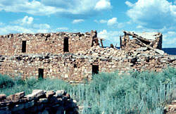 Kinishba Ruins National Historic Landmark, Arizona